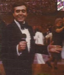 Sergio Velasco Ferrero- actor y periodista argentino